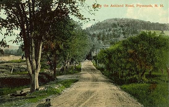 Along the Ashland Road, Plymouth, NH; from a c. 1910 postcard.